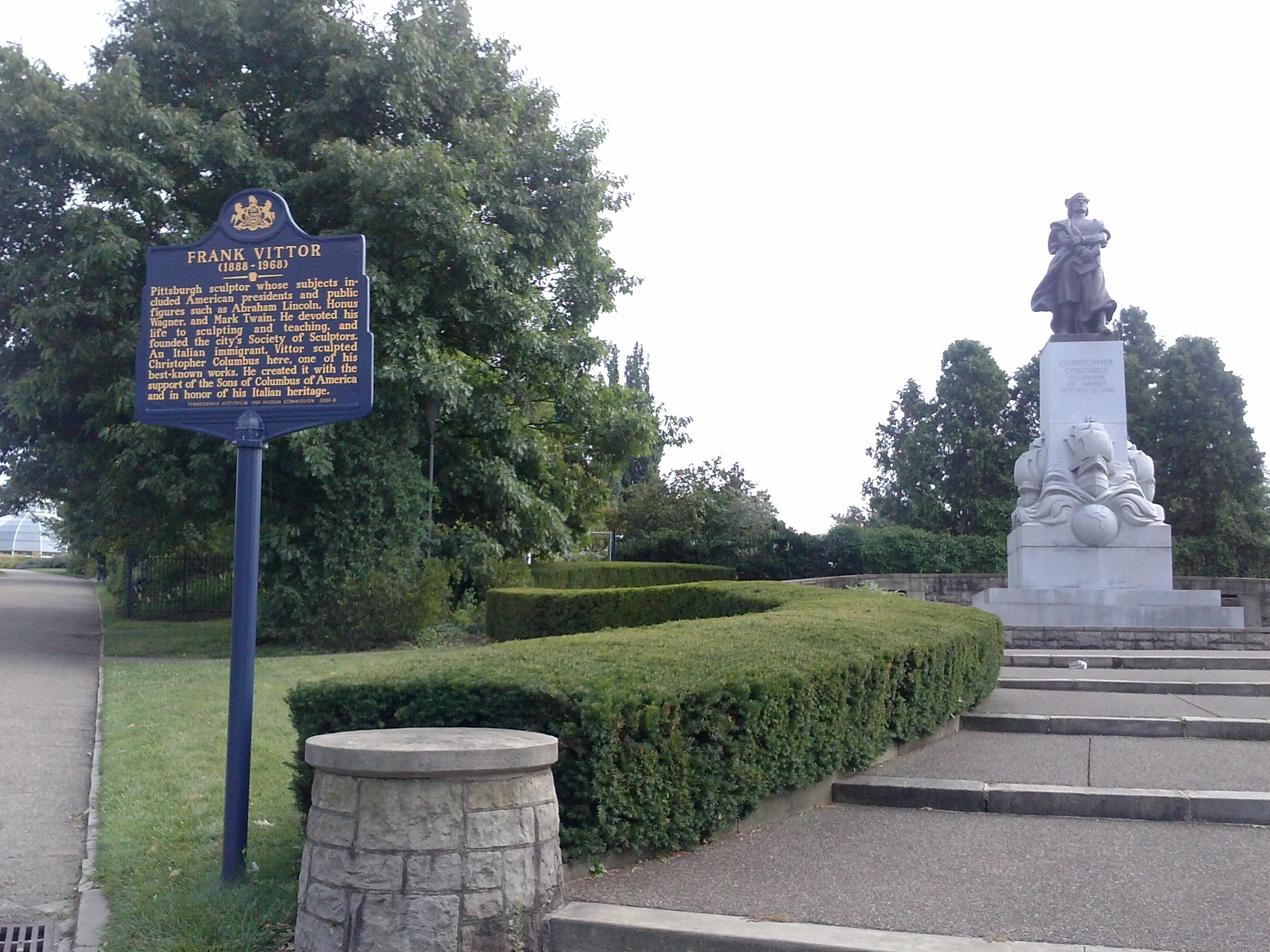 Statue of Christopher Columbus, Pittsburgh